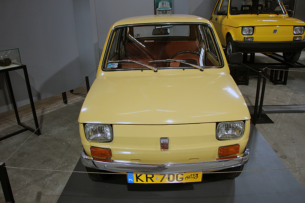 This photo was taken during Automotive Wikiexpedition 2016 set up by Wikimedia Polska Association.You can see all photographs in category Wikiekspedycja motoryzacyjna 2016. English | polski | +/−